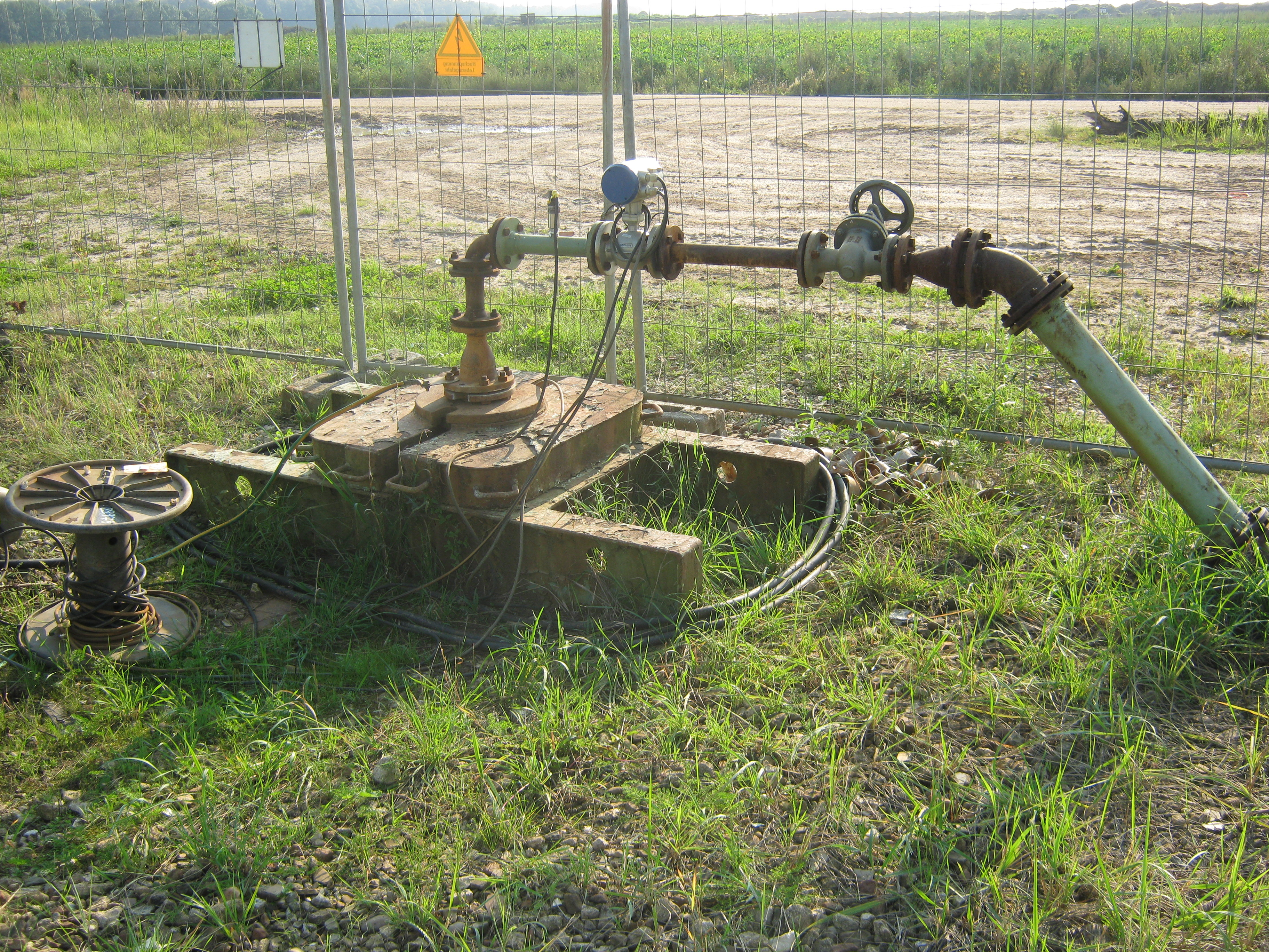 Groundwater drawdown pump at the open pit mine Hambach (NRW, Germany).